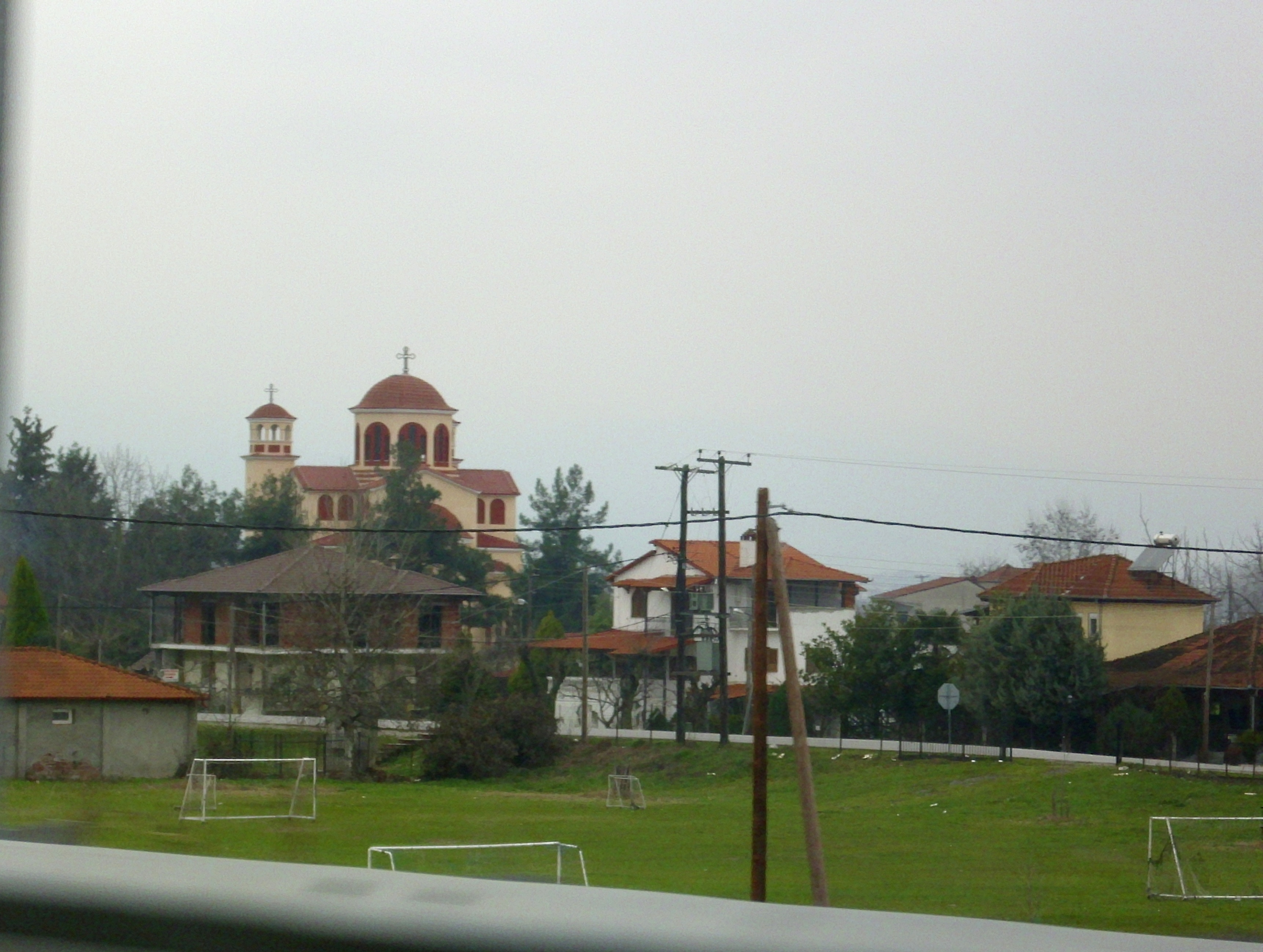 Church of Alexandria or Gida, Central Macedonia